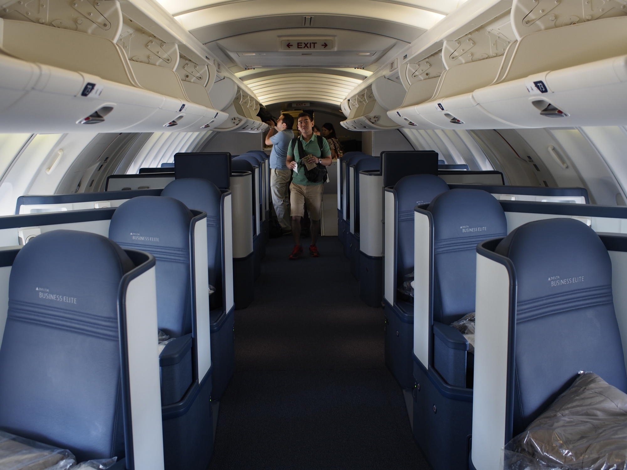 View of the reconfigured Business Elite upper deck cabin on Delta's 747-400. Very spacious and comfortable arrangement. Taken while boarding DL277 from Honolulu to Osaka Kansai. A very full flight today with only a few seats left open in the whole airplane.